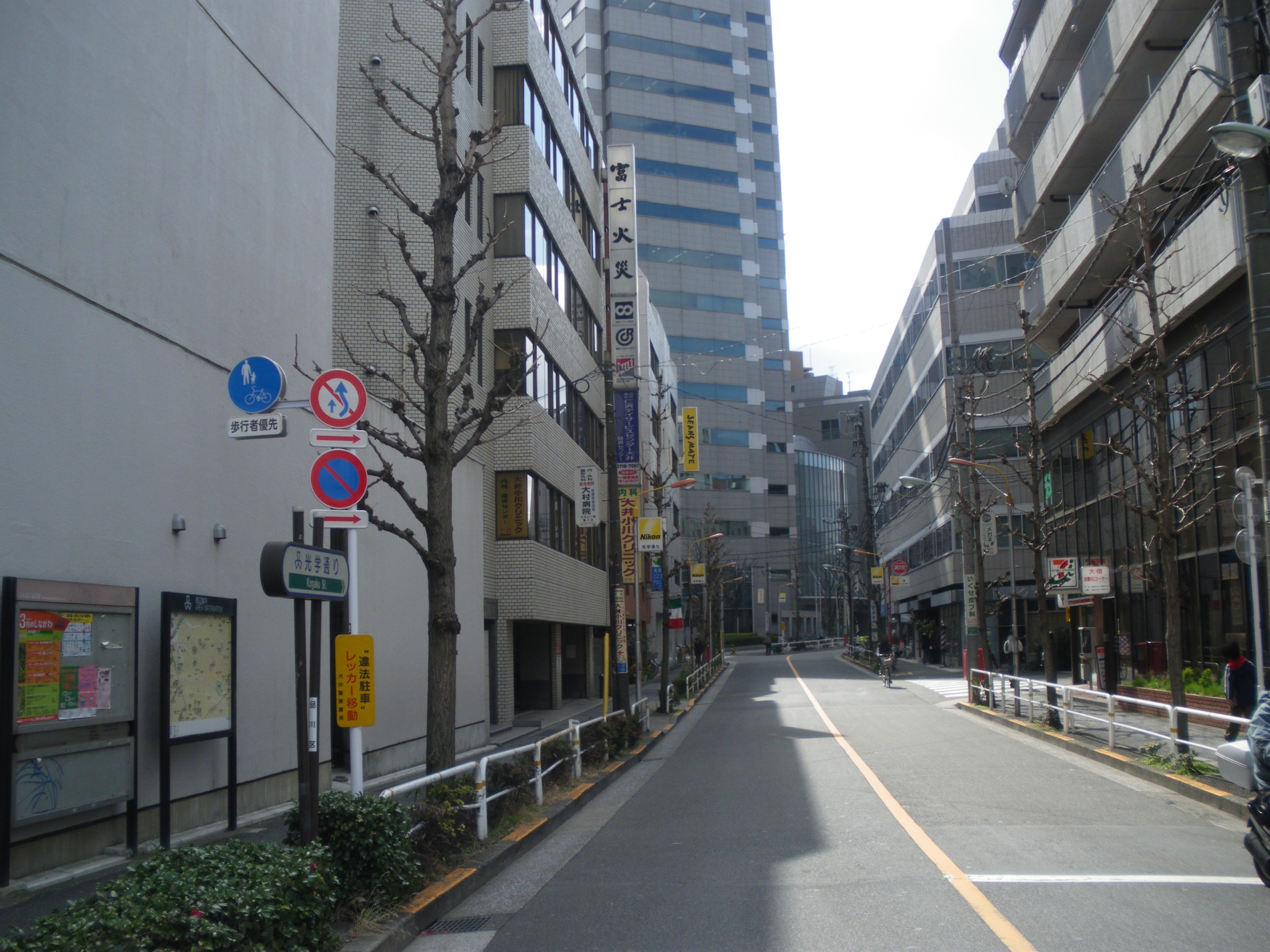 Kougaku Street(Oi,Shinagawa,Tokyo)